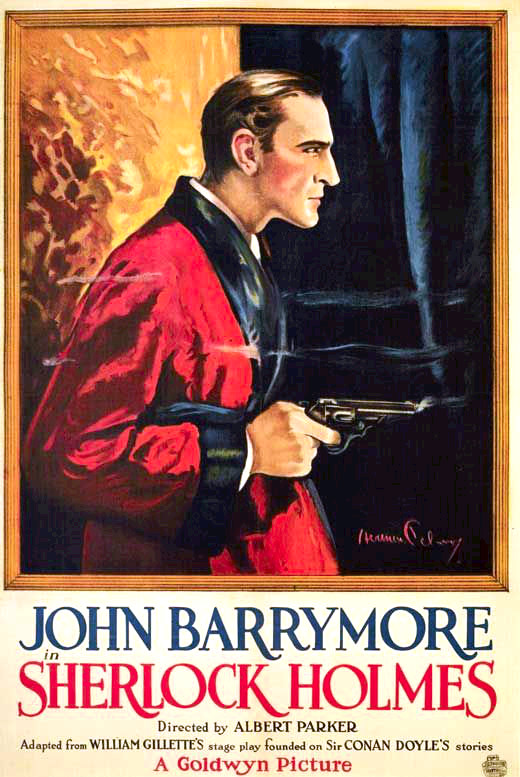 Poster for the 1922 film Sherlock Holmes.